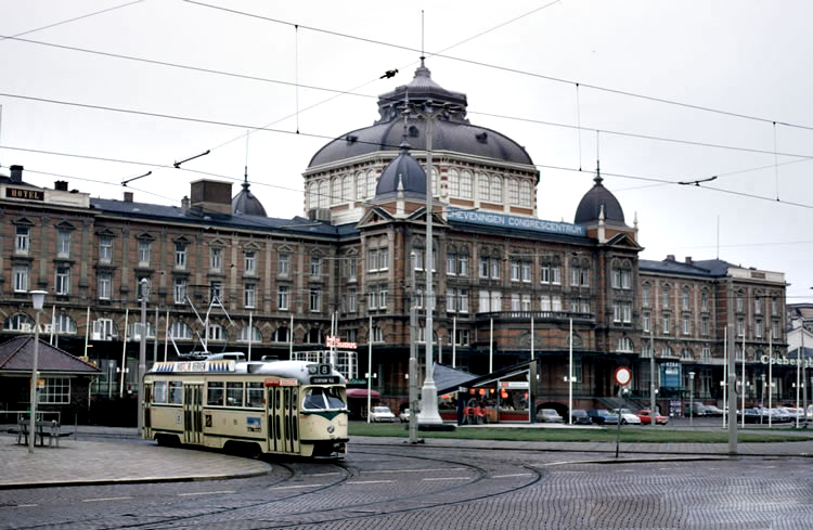 Tram route 8, in front of Scheveningen Kurhaus, The Hague, The Netherlands, around 1970